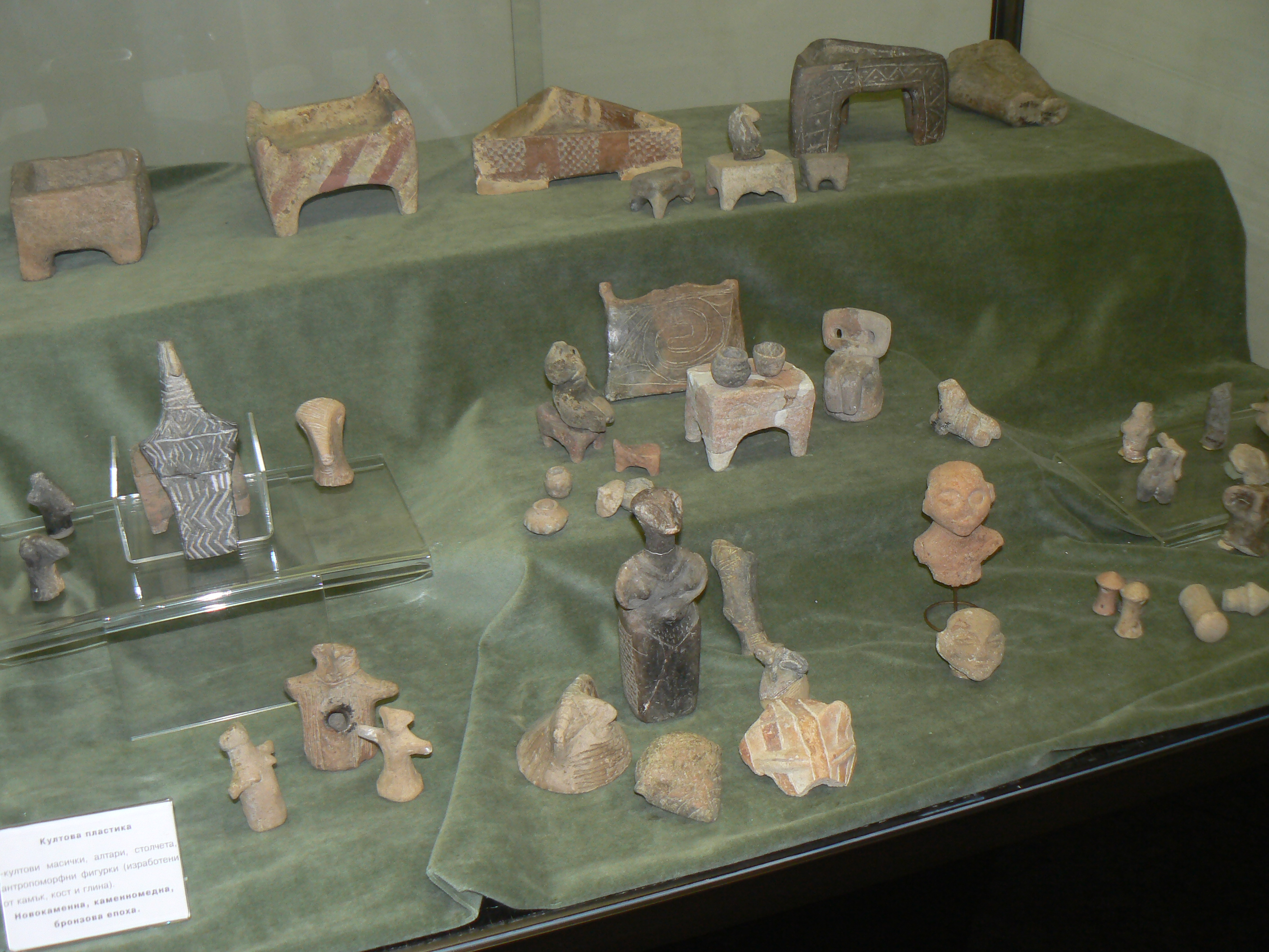 Exhibits of the History Museum of Nova Zagora, Bulgaria - artefacts typical of Neolithic cults